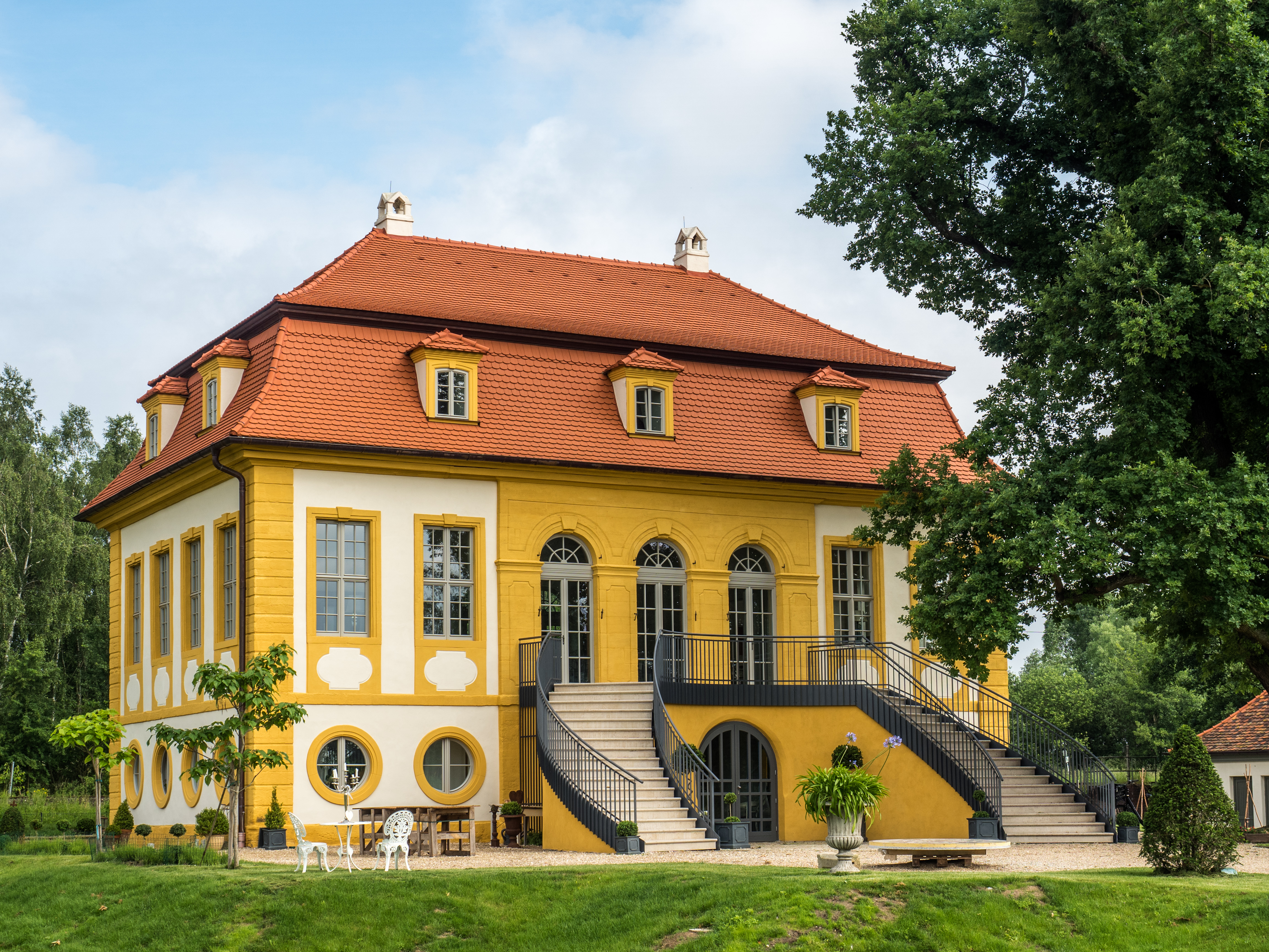 Aufseßhöflein castle in Bamberg